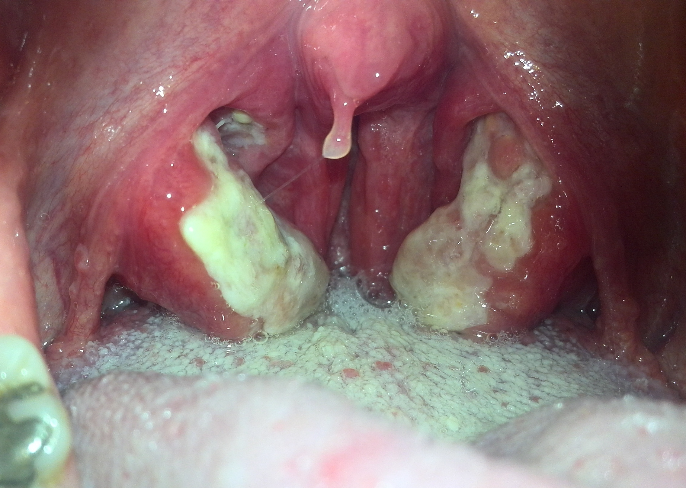 Example of tonsillitis in the adult human